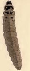 Stainton’s Natural History of the Tineina (1855–1873): Coleophora virgatella